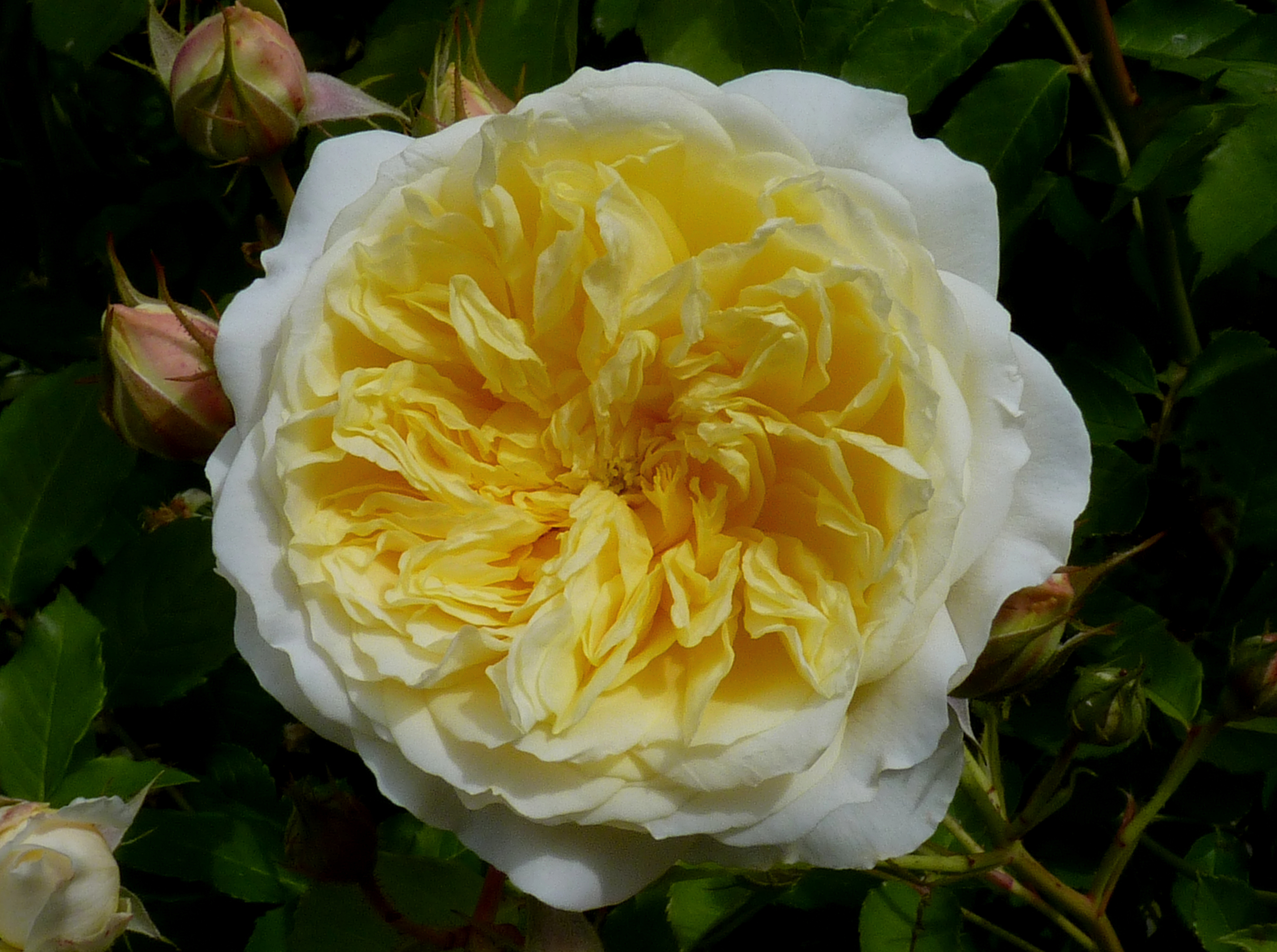 Rosa 'The Pilgrim' (David Austin, 1991), in a garden in Belgium.